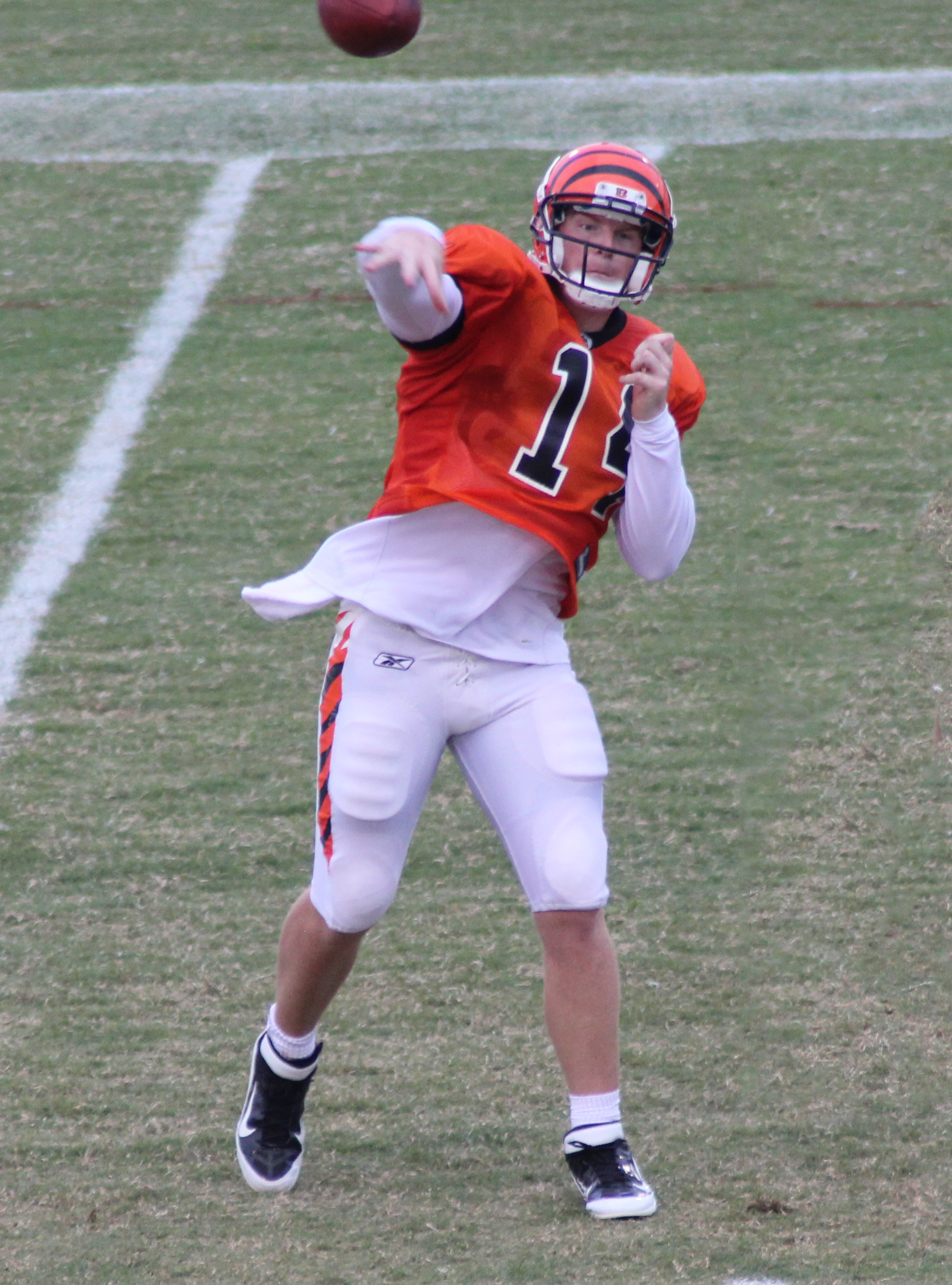 QB Andy Dalton (cropped version; adapted the work to expand grass field to isolate subject per rights of Cc-by-sa-2.0 see original under "Other versions" for compassion)